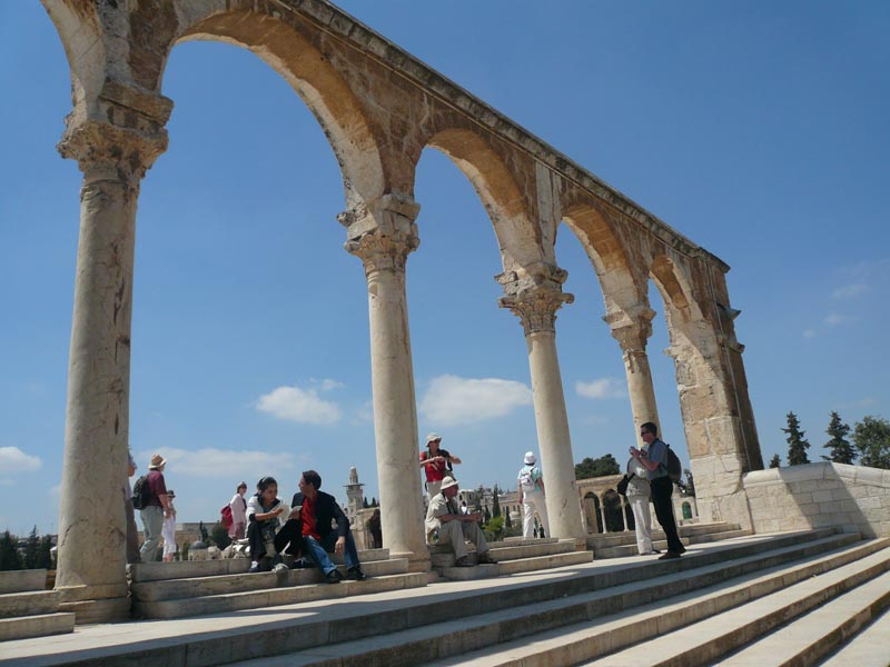 Arcades of Temple Mount